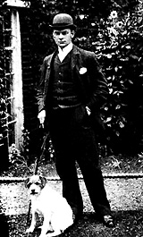 Jerome K. Jerome in the garden of his house with Jim, a fox terrier who perhaps was a descendant of Montmorency!